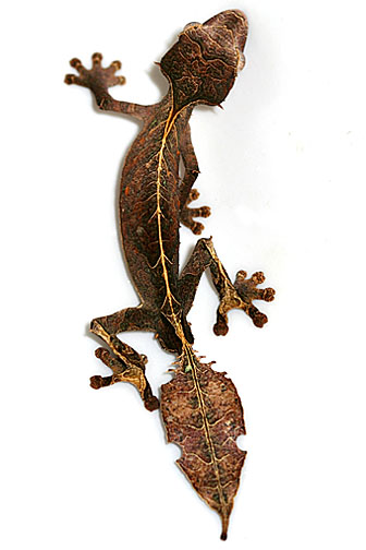 Male Uroplatus phantasticus - satanic / fantastic leaf-tail gecko